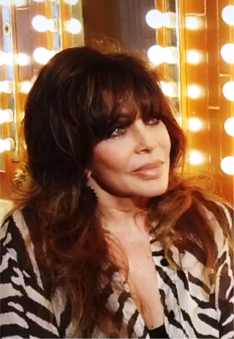 Veronica Castro interviewed in Aug 2019